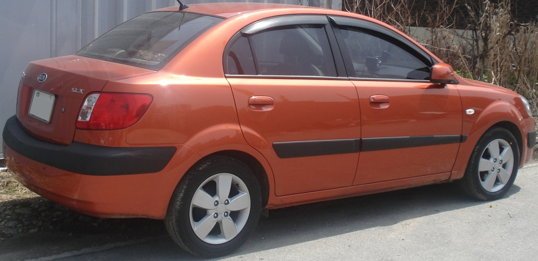 Kia New Pride